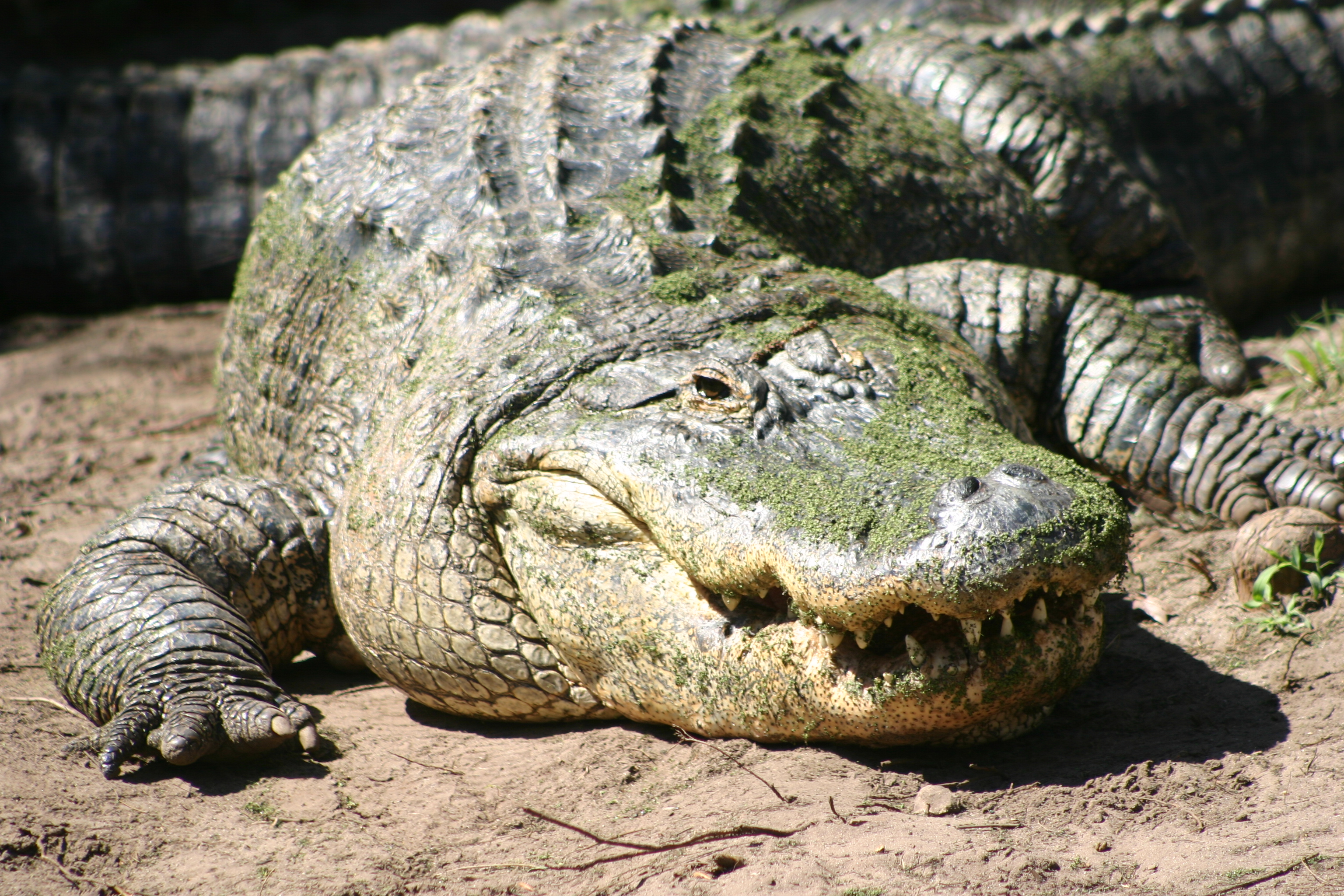 American Alligator, Photographer Donald W DeLoach Jr